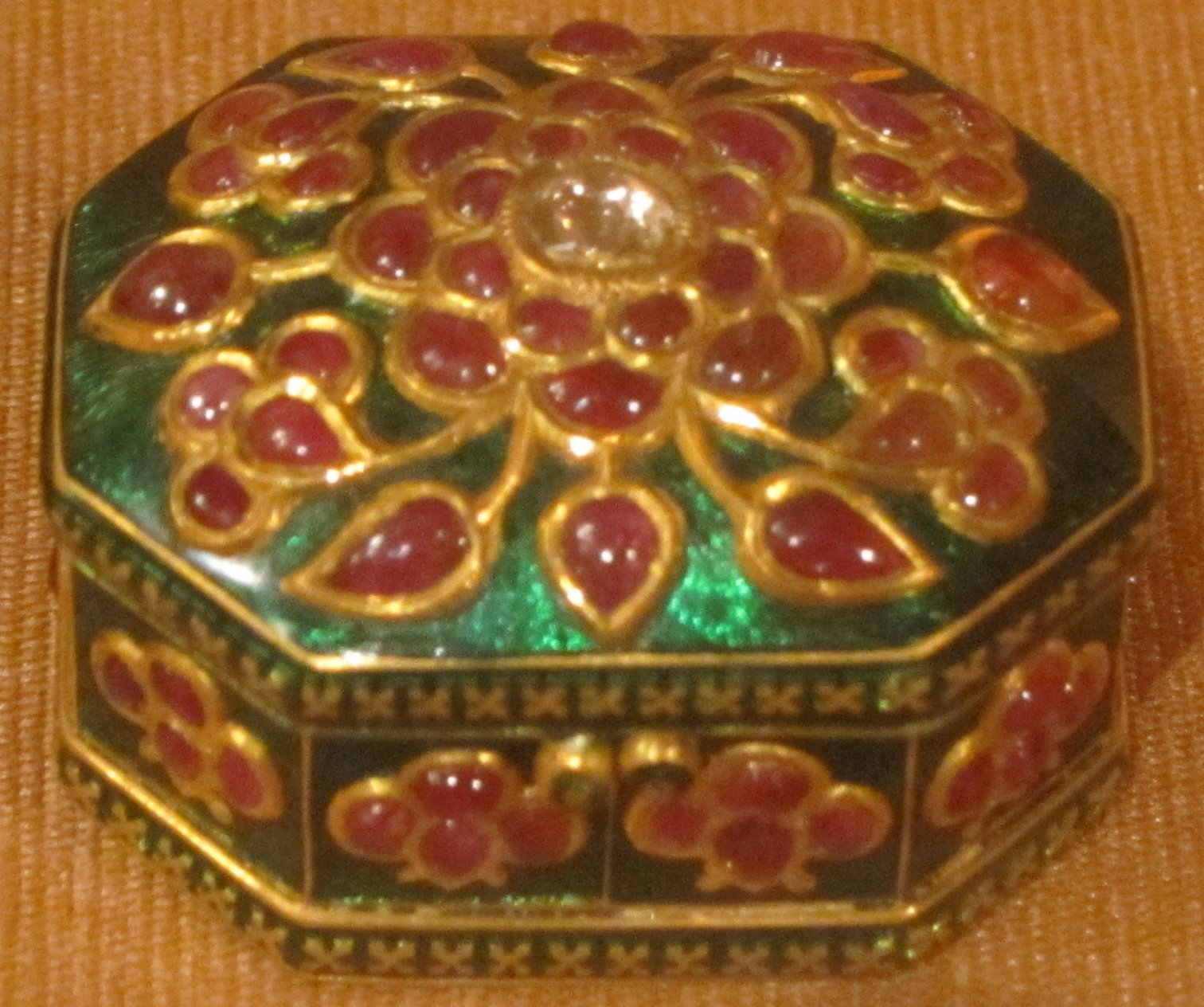 Miniature box, North India, 18th-19th century, gold, rubies, diamonds and enamel, Honolulu Academy of Arts